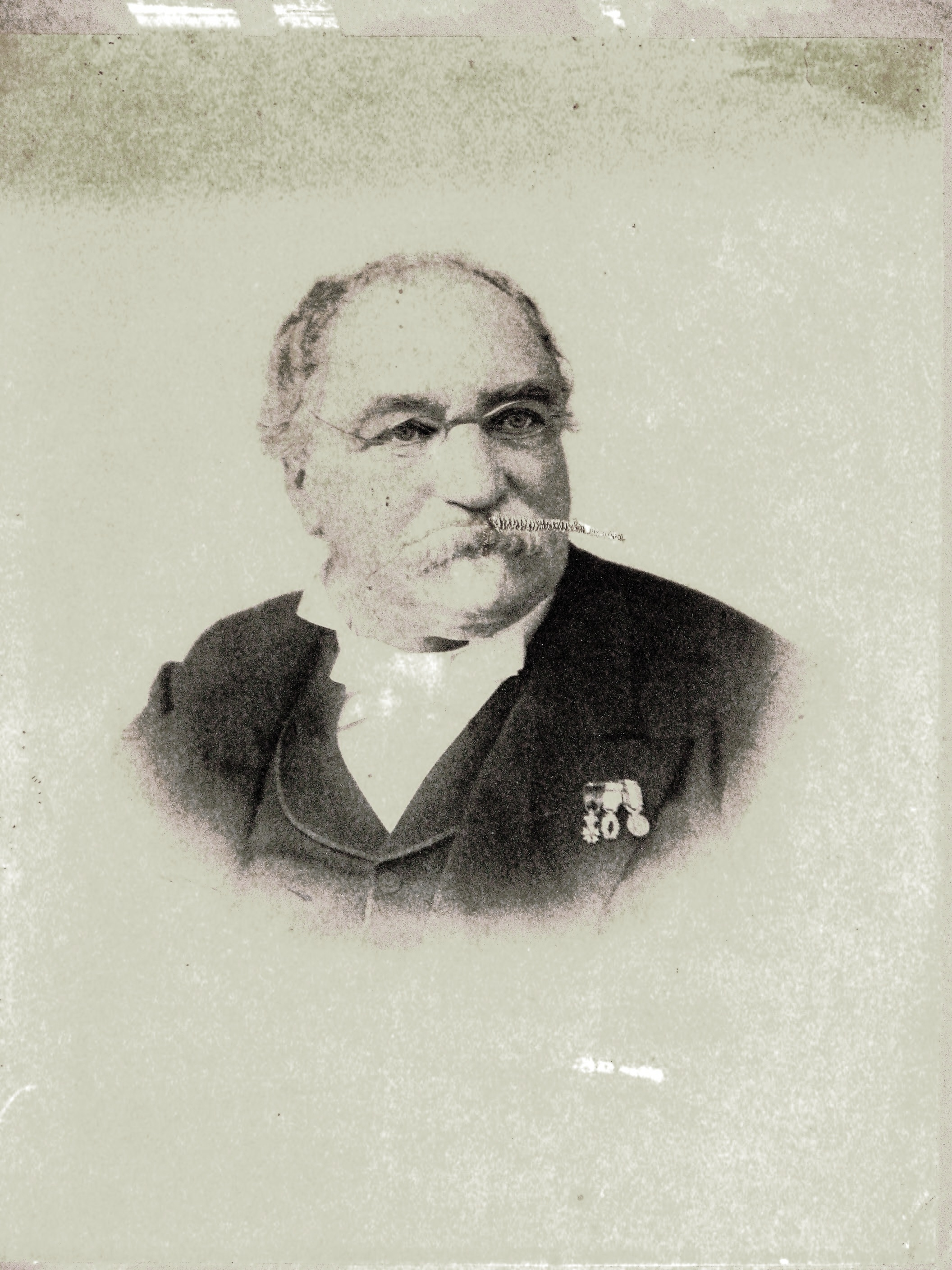 a portrait of Frederic Ritter, historian, specialist of french mathematician François Viète (Vieta).